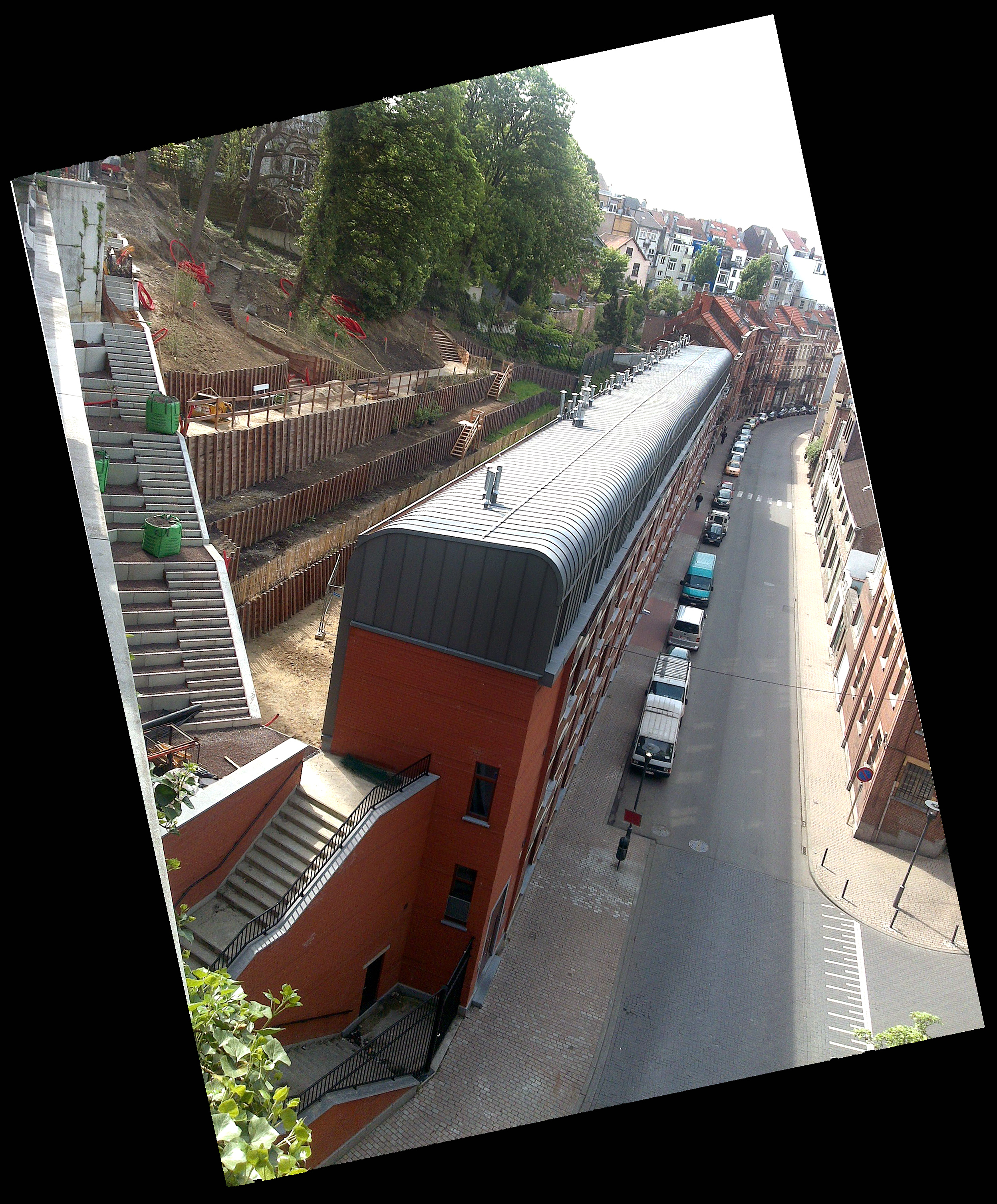 A city garden,between downtown and an higher avenue